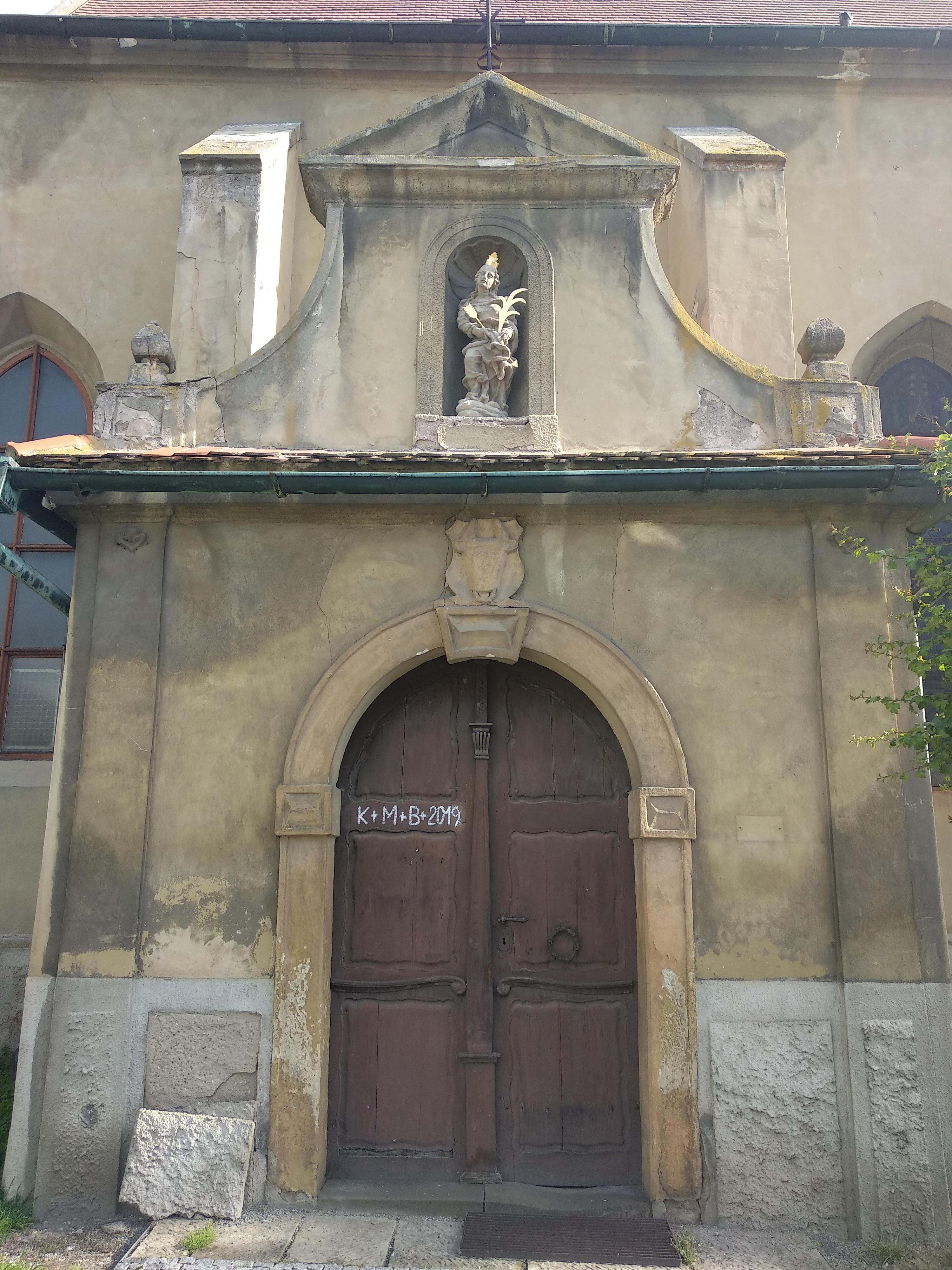 entrance, sv. Ursulla churche